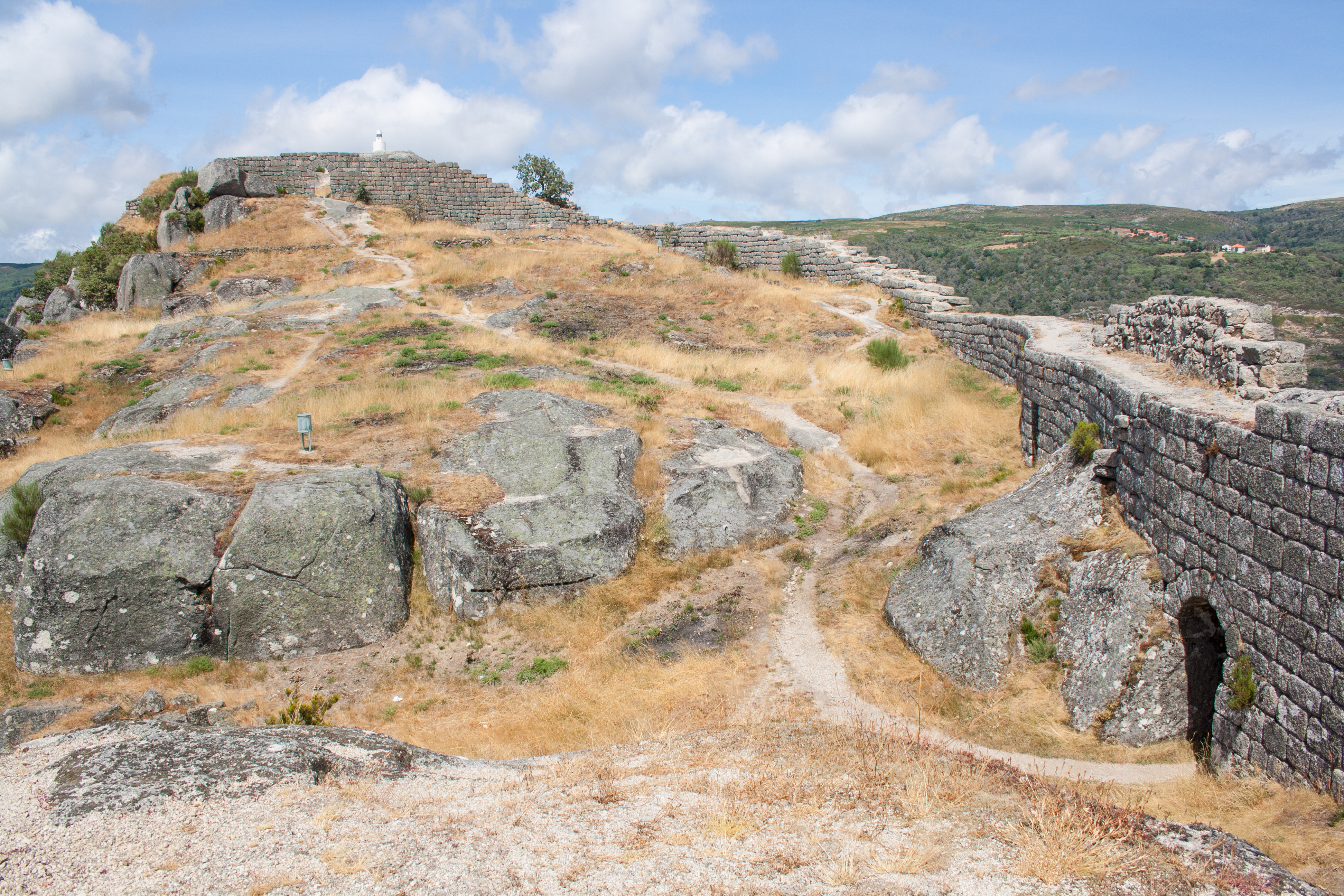 Castelo de Castro Laboreiro, Parque Nacional Peneda-Géres, Portugal